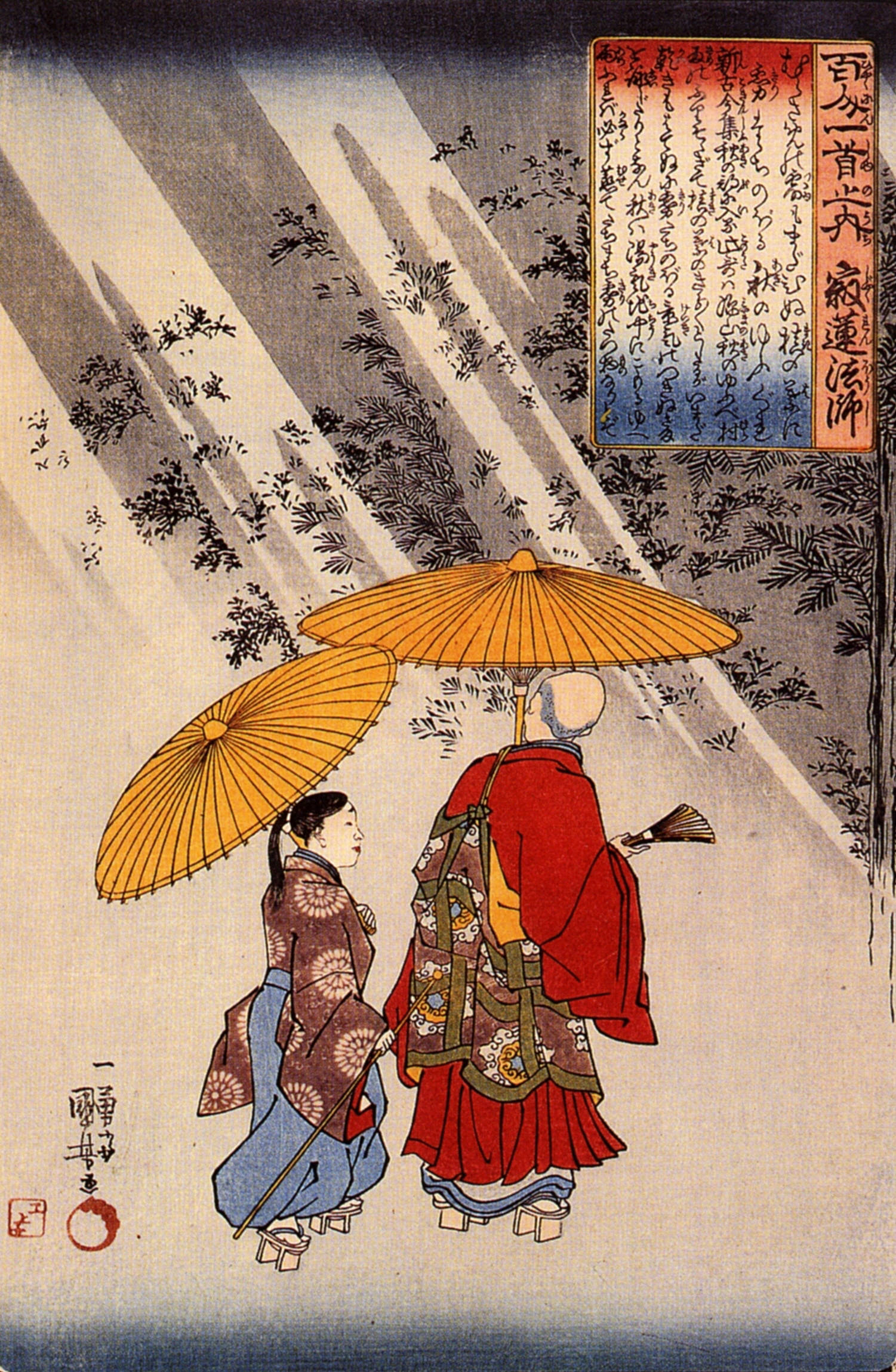 歌川国芳 (Utagawa Kuniyoshi, 1798 - 1861). This selection is from one hundred prints illustrating the Japanese poetry antology called the Hyakunin isshu, which was compiled by the poet Fuhiwara Teika 1162-1241. The Hyakunin isshu has always been a popular subject and part of the japanese culture it has even taken the form of a card game. This print illustrates one autumn evening while the monk jakuren and a companion are strolling past a grove of yew trees. Rays of light shine throught the haze.